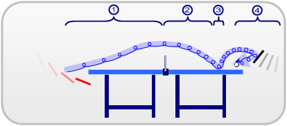 Diagram of the curve of a tabletennis ball with backspin, divided in 4 phases.